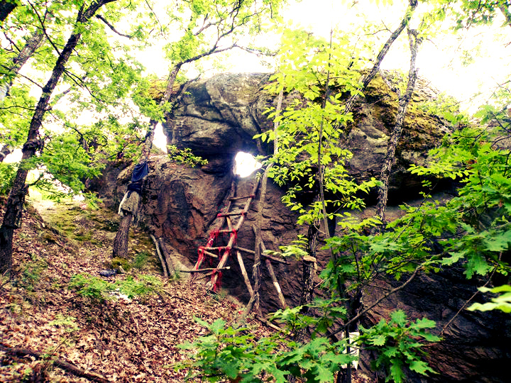 Skribina